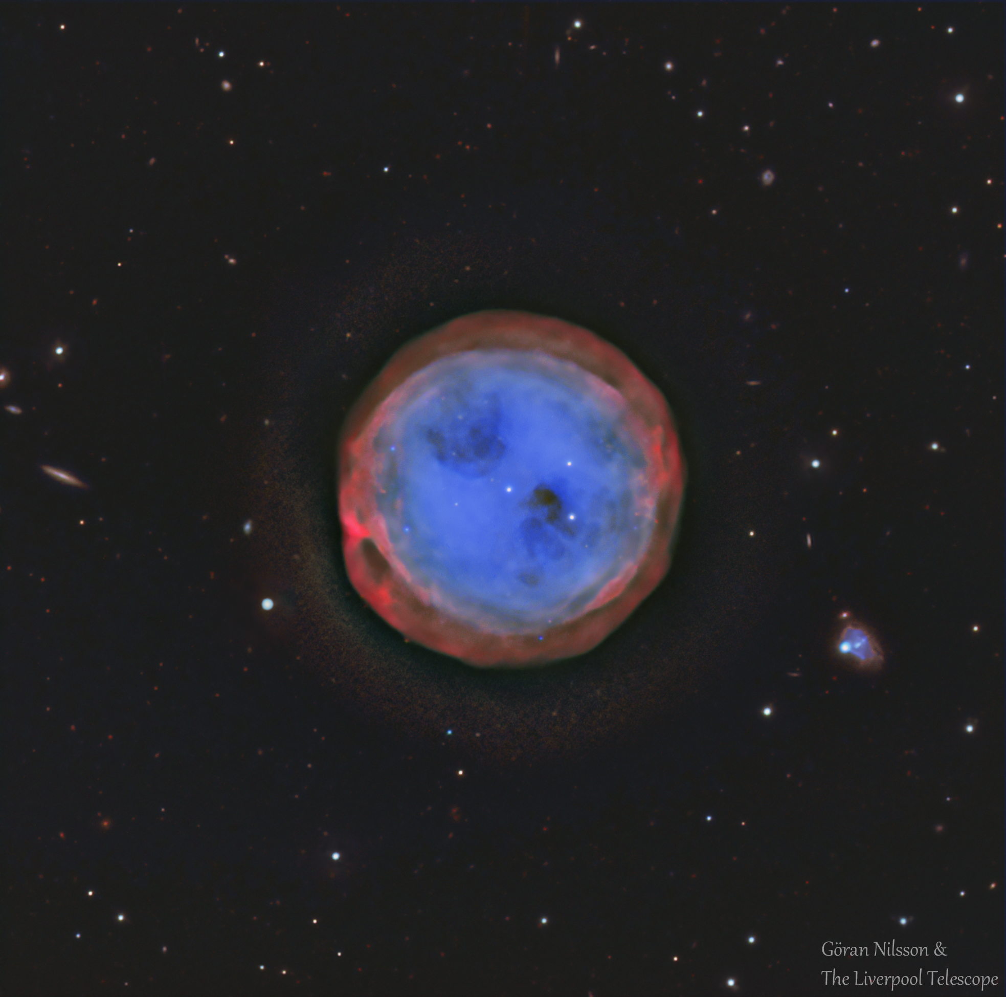 HaRGB image of the Owl Nebula M97. Data from the Liverpool Telescope, a 2 m RC telescope on La Palma, processed by Göran Nilsson. 63 x 100s exposures totaling 1.8 hours